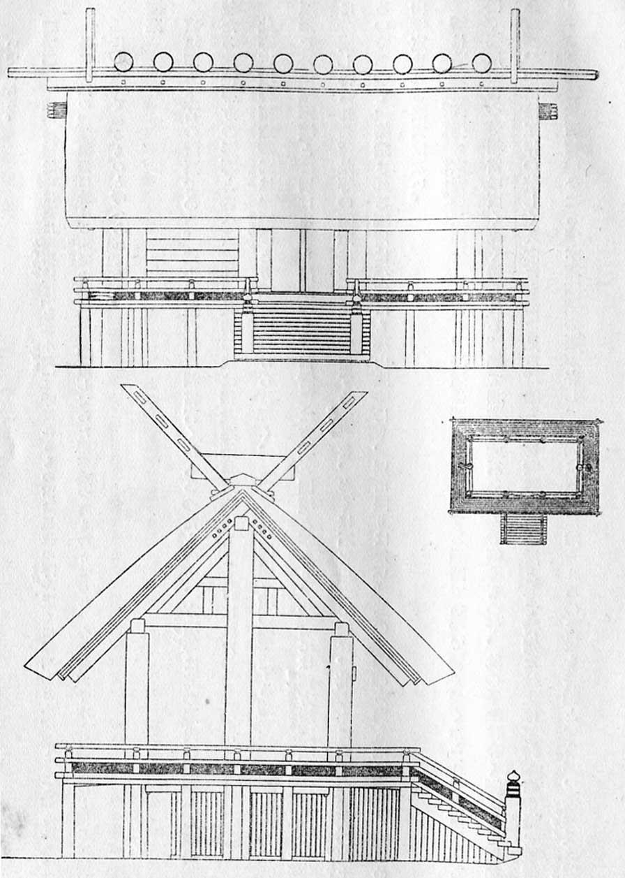 Front and Side View of the Honden at the Ise Shrine